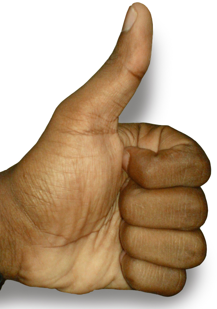 I took this photograph.